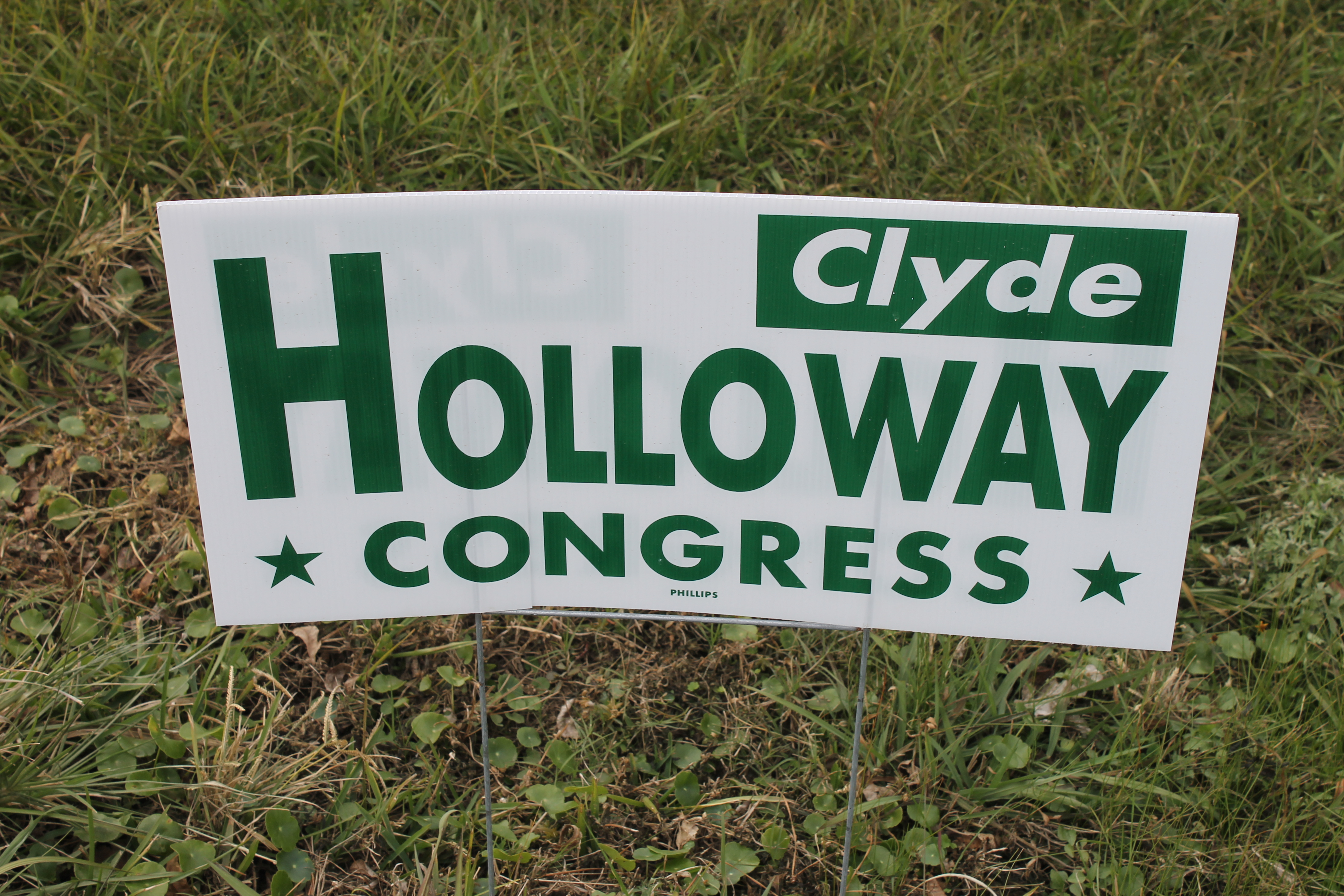 Clyde C. Holloway campaign sign, 2014, in Lecompte, LA